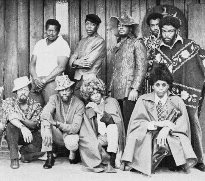 Trade ad for The Parliaments's single "A New Day Begins".To better adapt it to his respective Wikipedia article, the ad was cropped and cleaned in a graphics editing program. The original can be viewed at the source below.